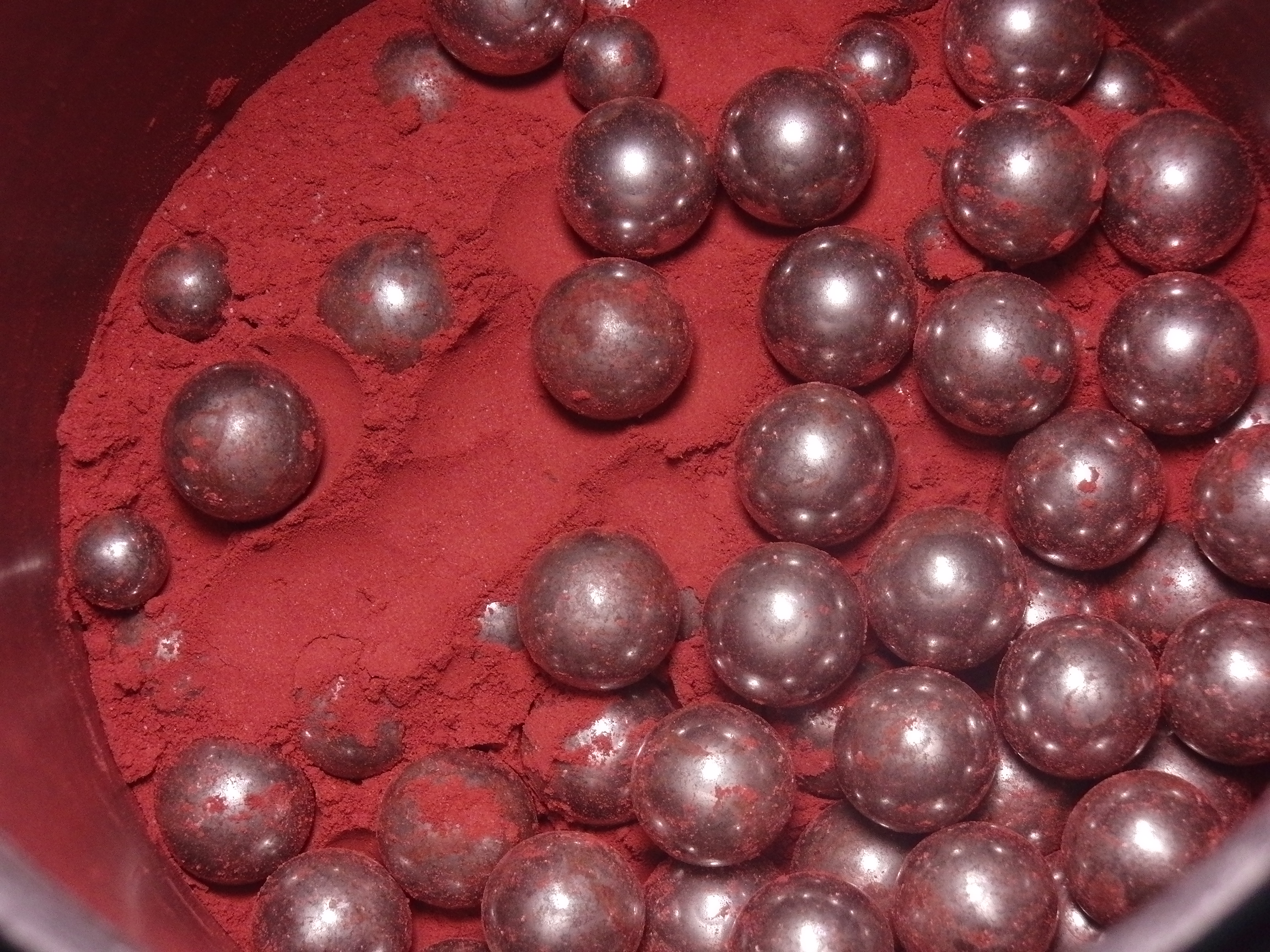 Ball mill with steel ball is milling iron oxide and potassium nitrate.